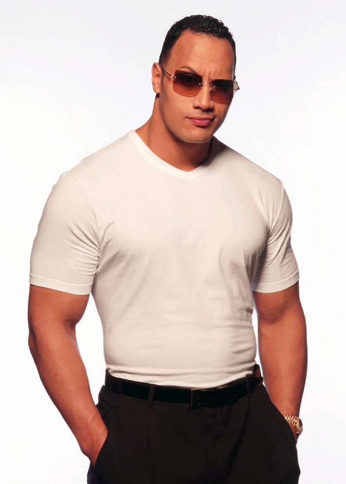 Dwayne "The Rock" Johnson photographed by Jerry Avenaim